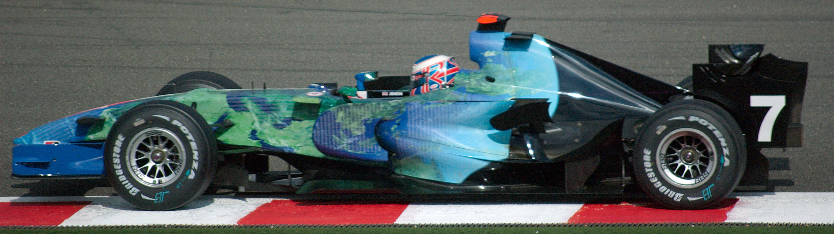 Jenson Button driving for Honda at the 2007 Belgian Grand Prix.